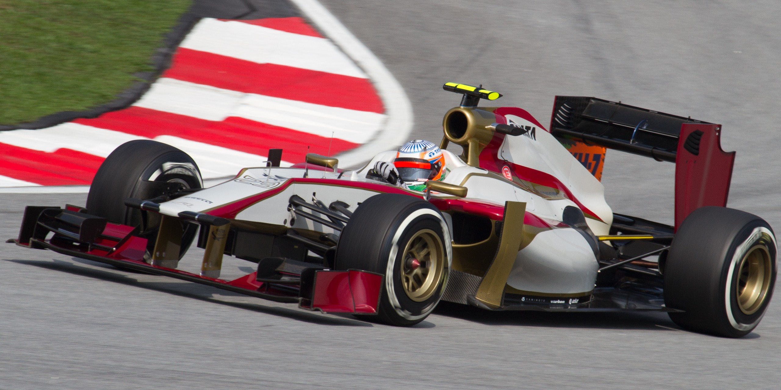 Formula One 2012 Rd.2 Malaysian GP: Narain Karthikeyan (HRT) during the qualify session on Saturday.